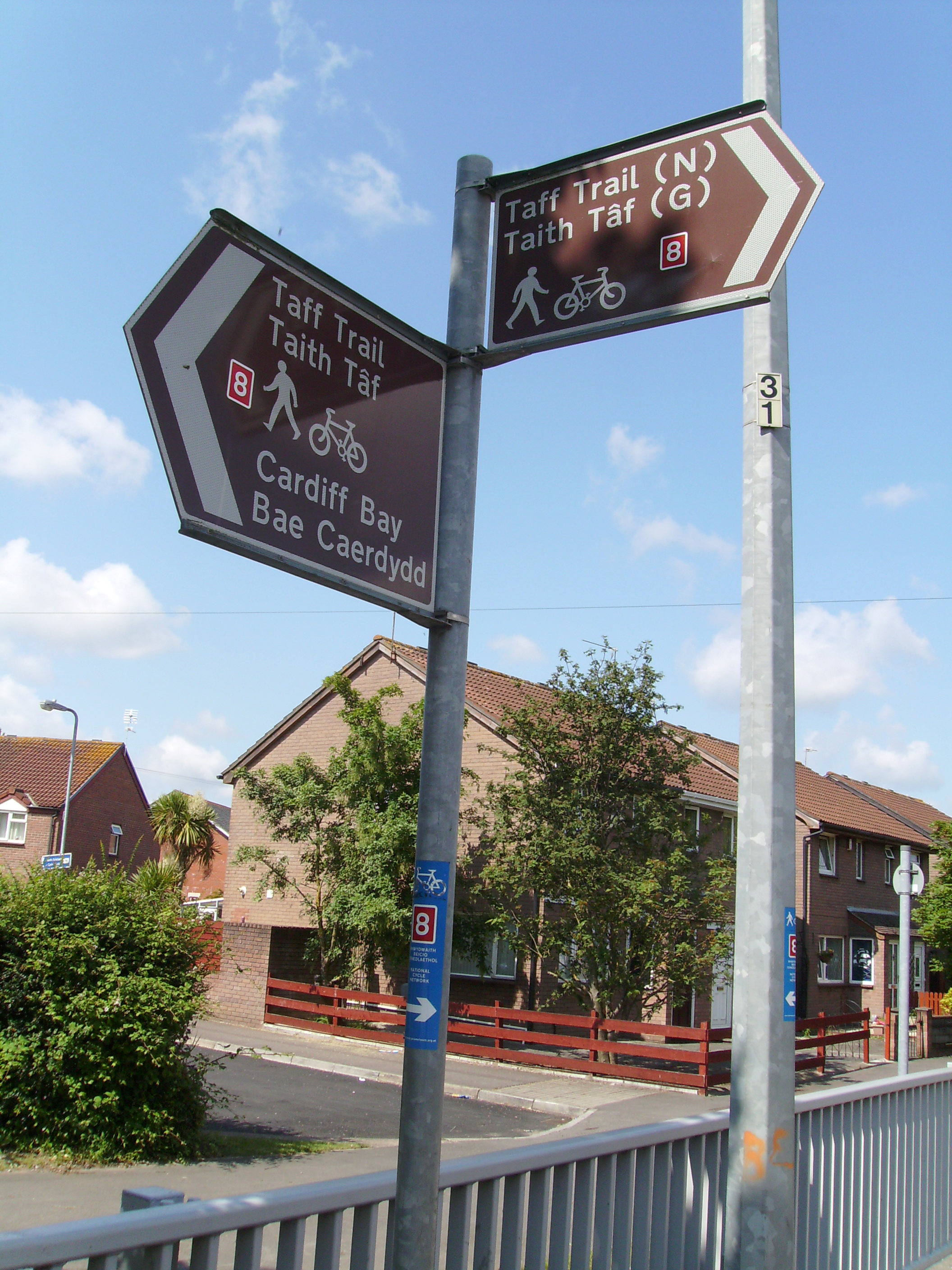 Taff Trail sign (NCN 8), Grangetown, Cardiff, Wales